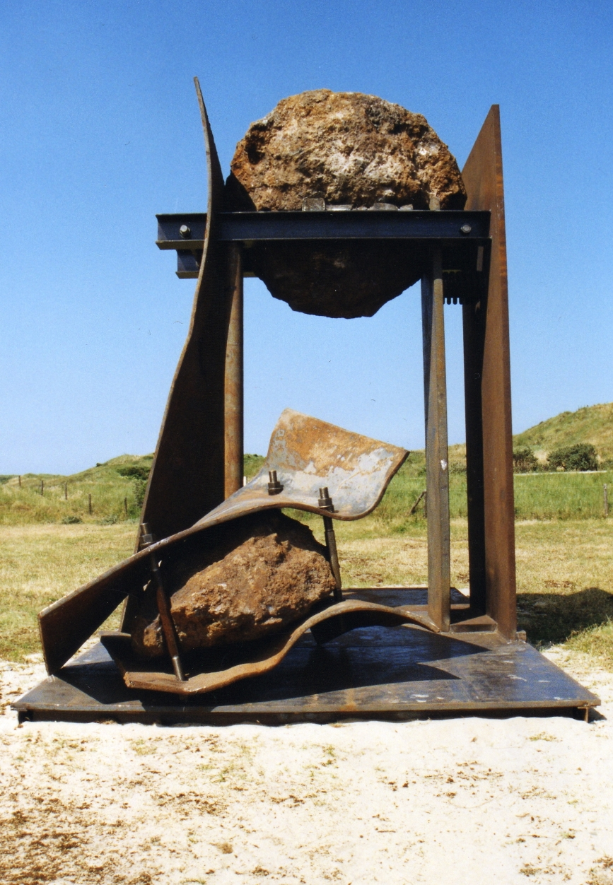 sculpture Messenger (1999) by Aleš Veselý in Sculpturepark Een Zee van Staal in Wijk aan Zee/The Netherlands